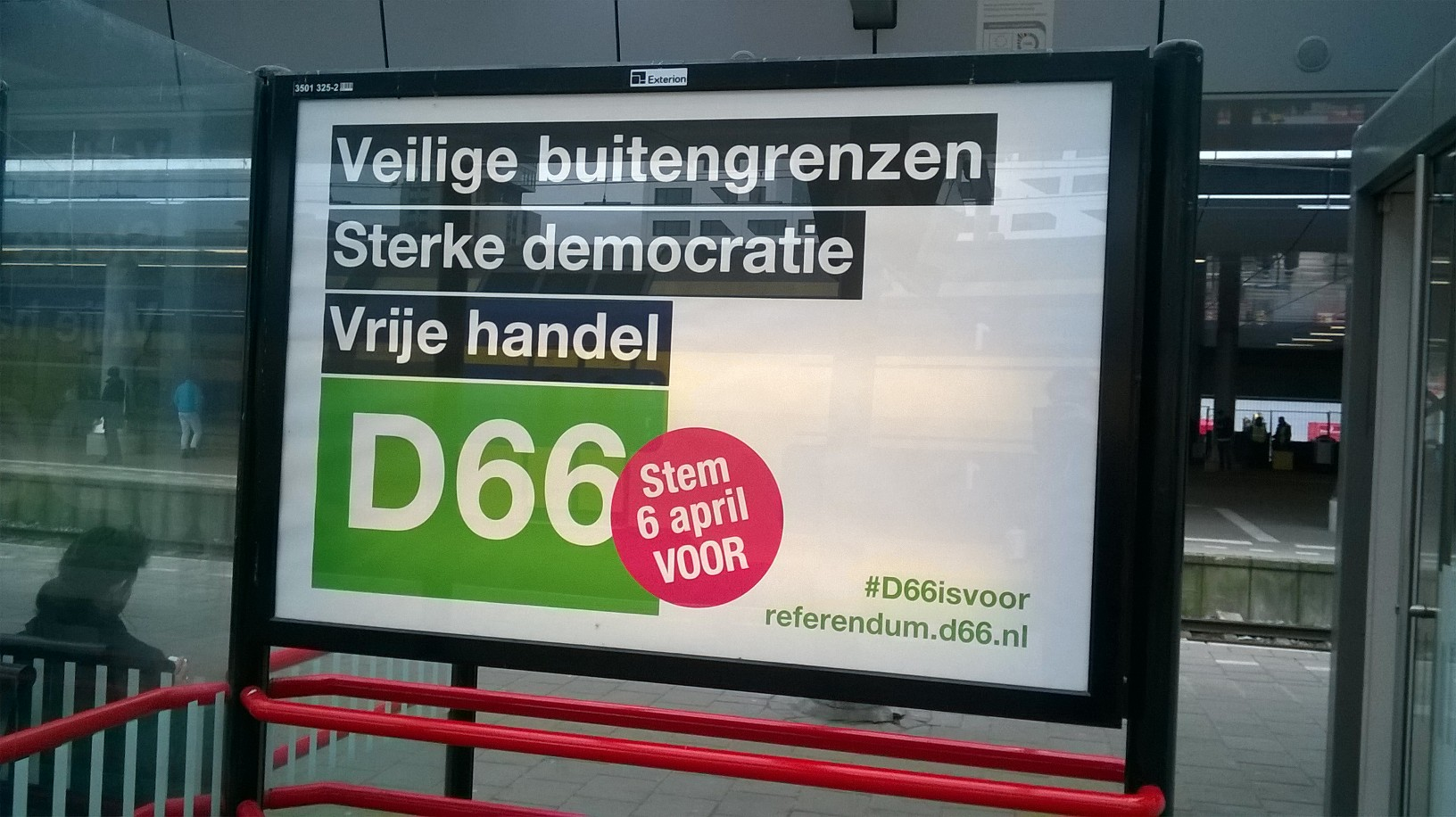 Advertising in favor of Association agreement with Ukraine by Dutch political party D66